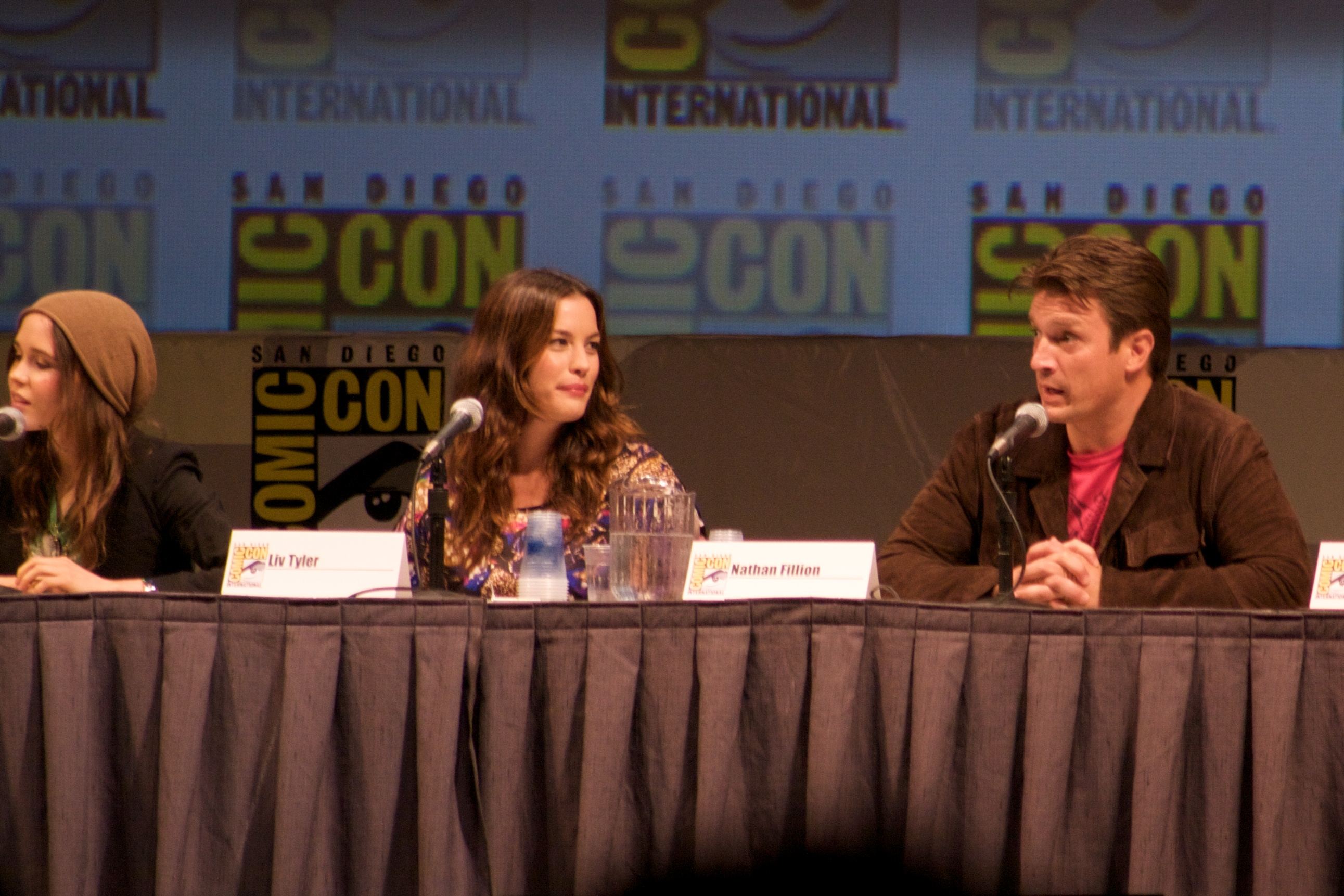 "Super" Panel. Actors Ellen Page, Liv Tyler and Nathan Fillion at San Diego 2010 Comic-Con International.